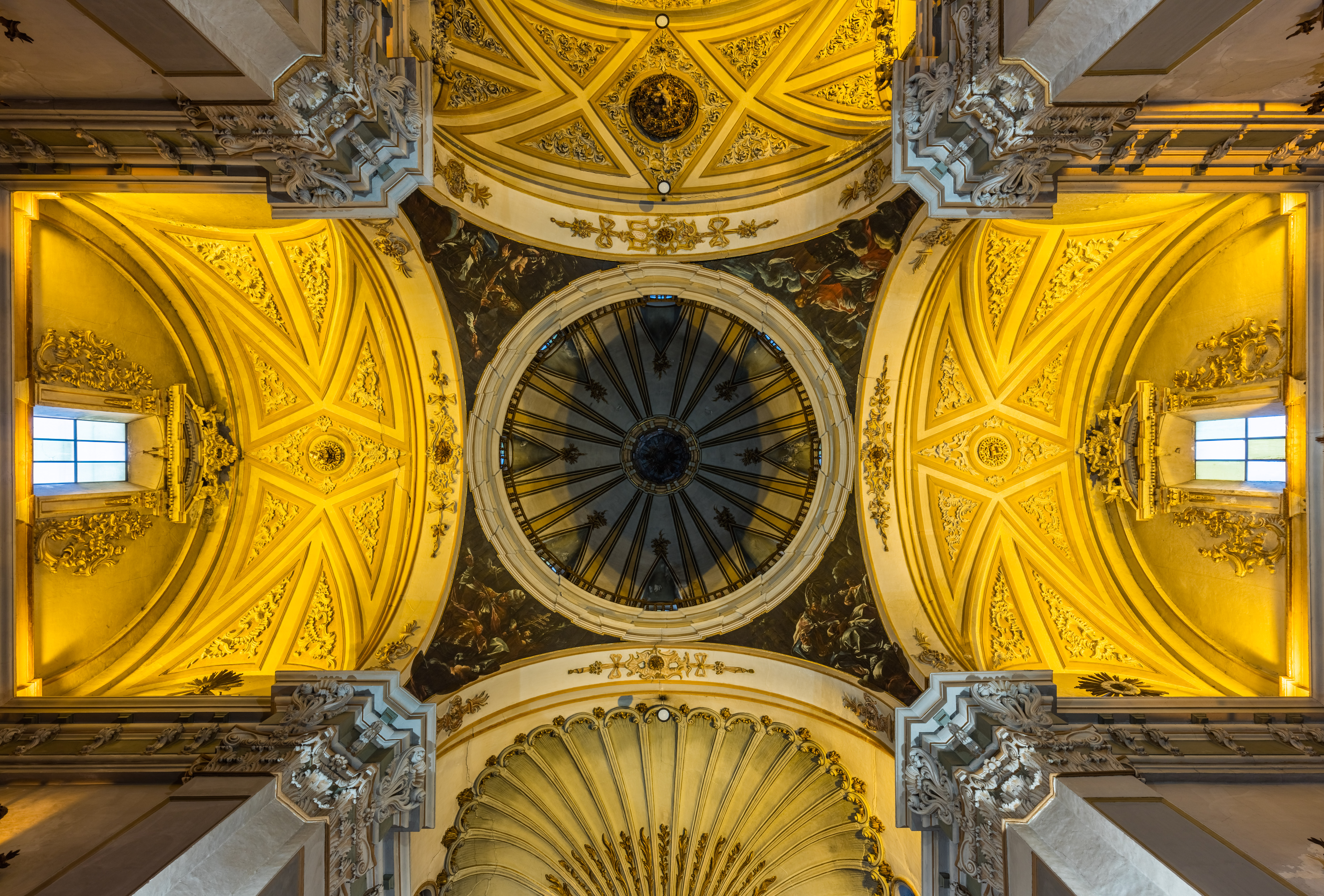 Church of San Juan el Real in the center of Calatayud, province of Zaragoza, Spain. The baroque church was built in the 17th and 18th century and hosts among others some of the first paintings still conserved by Francisco de Goya in the pendentives of the main dome.